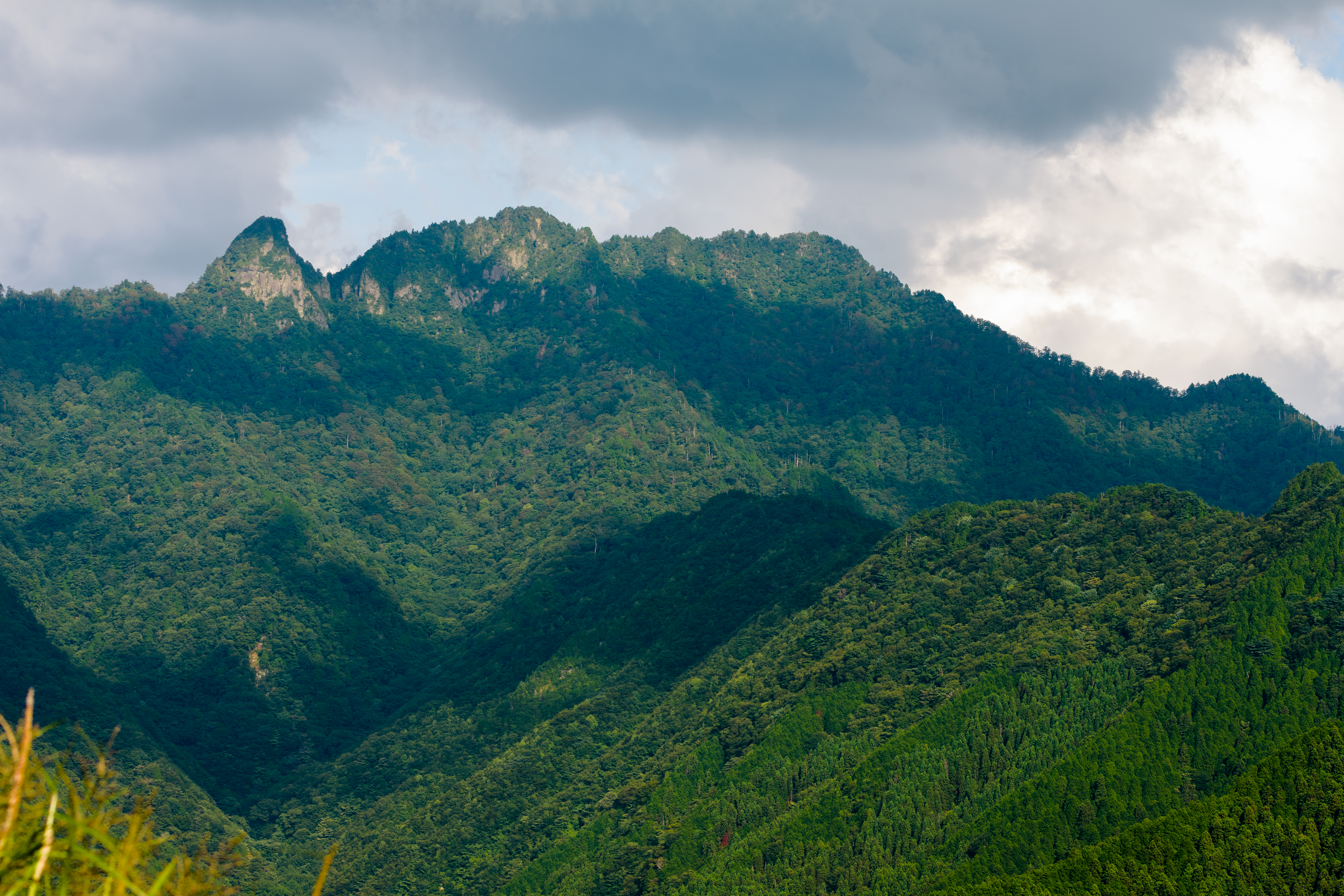 Mount Dainichi (1,689 metres, left) and Mount Inamura (Inamuragatake, 1,726,metres, center) from Mount Kan'onmine, Tenkawa, Nara.